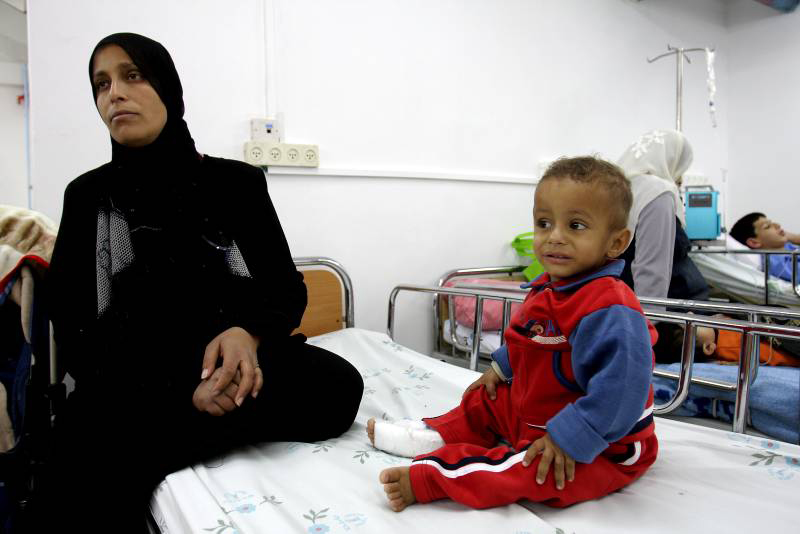 Side by side, Palestinian and israeli families find a shelter in "Barzilay" hospital, Ashkelon, and shelling from grad rockets that shoot from Gaza to Ashkelon city, in Israel.